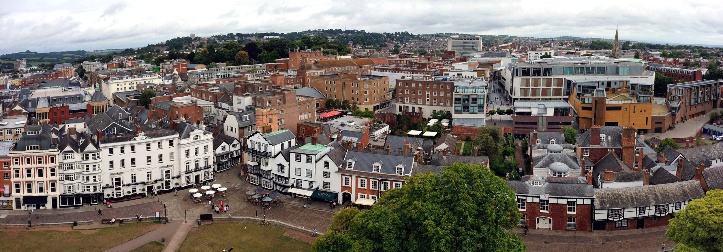 A panorama of the English city of Exeter taken from the roof of the north tower of the cathedral